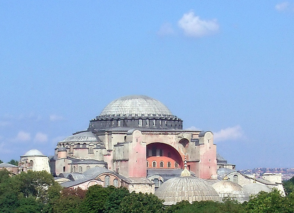 How hypothetically could look now like the Byzantine cathedral Ἁγία Σοφία (Hagia Sophia) without the minarets added more than eight hundred years later - altered version of the photo Aya sofya (just a raw sketch, not intended to be anyhow near perfection)